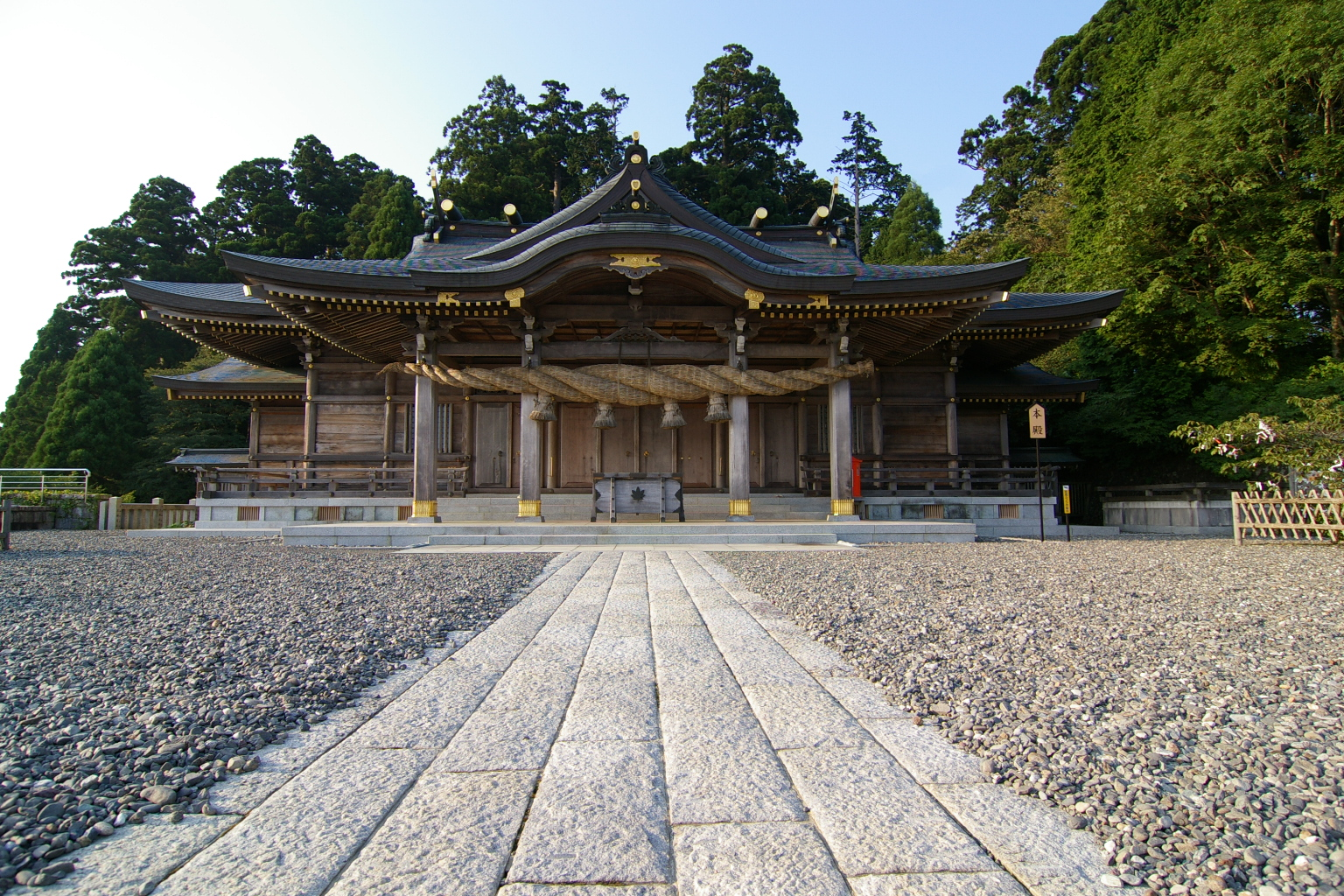 Akiba Jinja